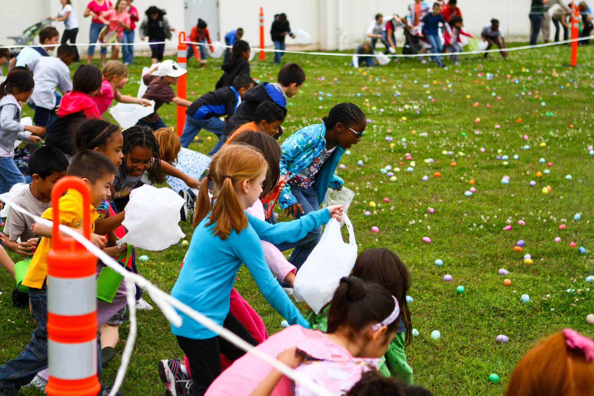 Children race for candy and prizes during an Easter egg hunt at the commissary here Apr. 6. The egg hunt followed the proud to be a military kid event that incorporated different aspects of what Marines do on a daily basis and slightly modified them for children with a bouncy-house obstacle course, tricycle course, water-balloon grenade toss, MCMAP training, tug-o-war competition and low crawling practice.